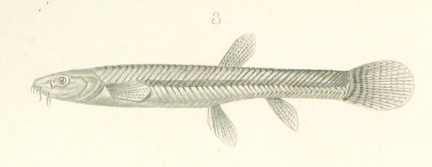 The Stone loach Triplophysa intermedia, under its old name Diplophysa intermedia.